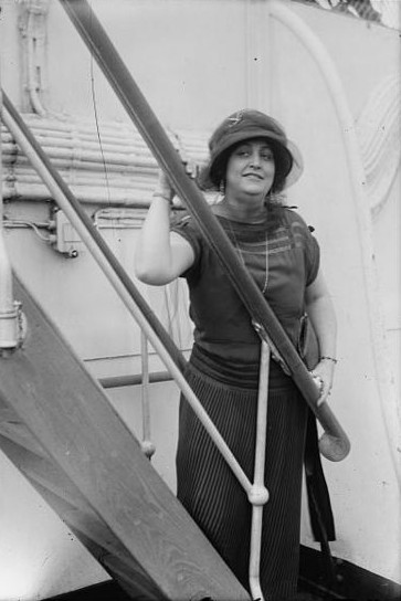 Margarete Matzenauer (1881 - 1963), Hungarian-born American soprano